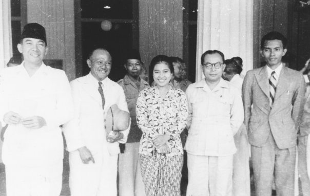 Reception in Yogyakarta for those who were released from exile in Serui (1948). From left to right: Sukarno, Sam Ratulangi, Fatmawati, Mohammad Hatta, and I. P. Lumban Tobing. Suwarno is behind Ratulangi and Fatmawati.